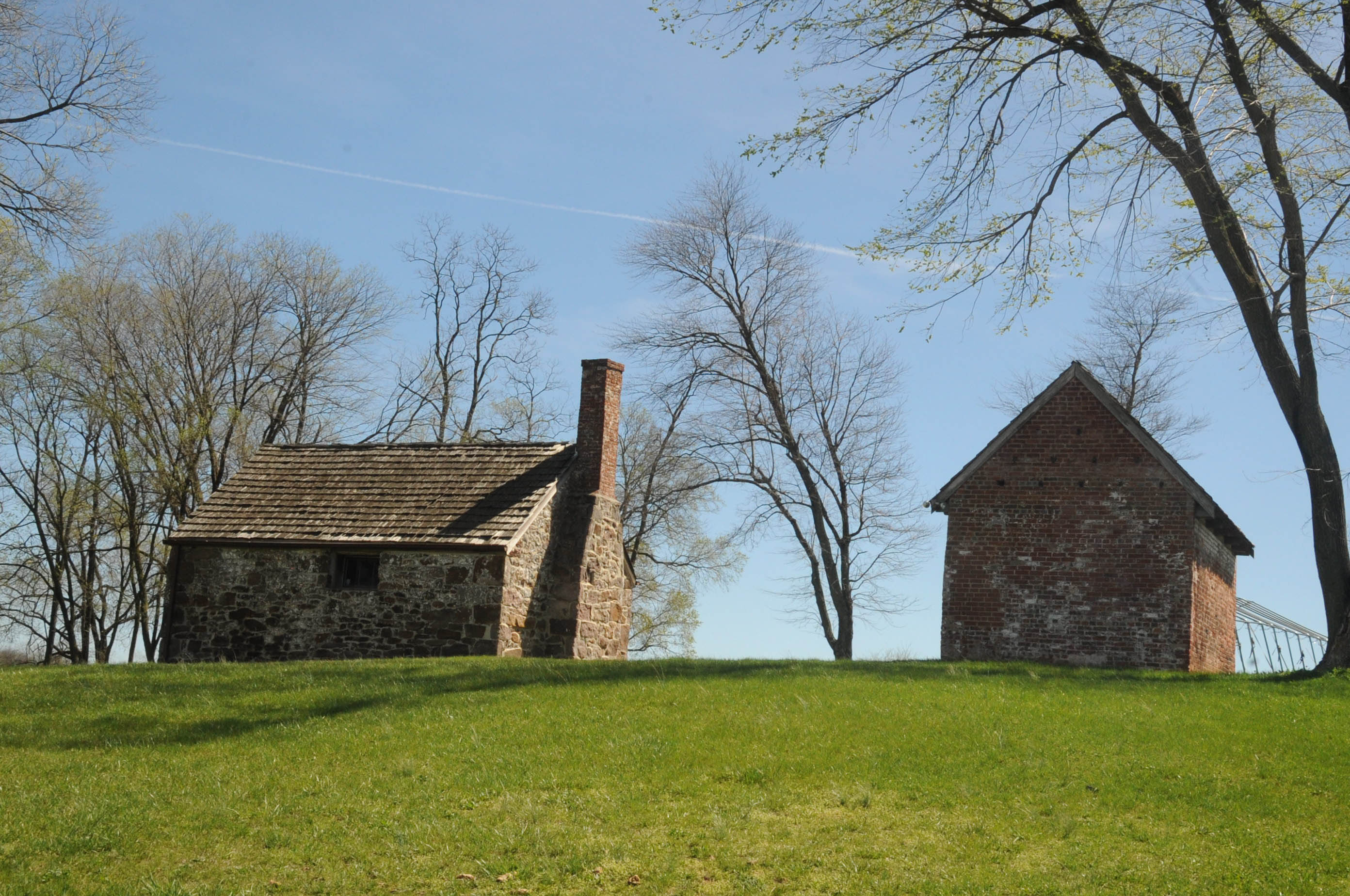 THE FARM AND BUILDINGS DATE FROM THE MID 1800’S THROUGH 1910. PICTURED HERE ARE THE SMOKEHOUSE AND SLAVE QUARTERS